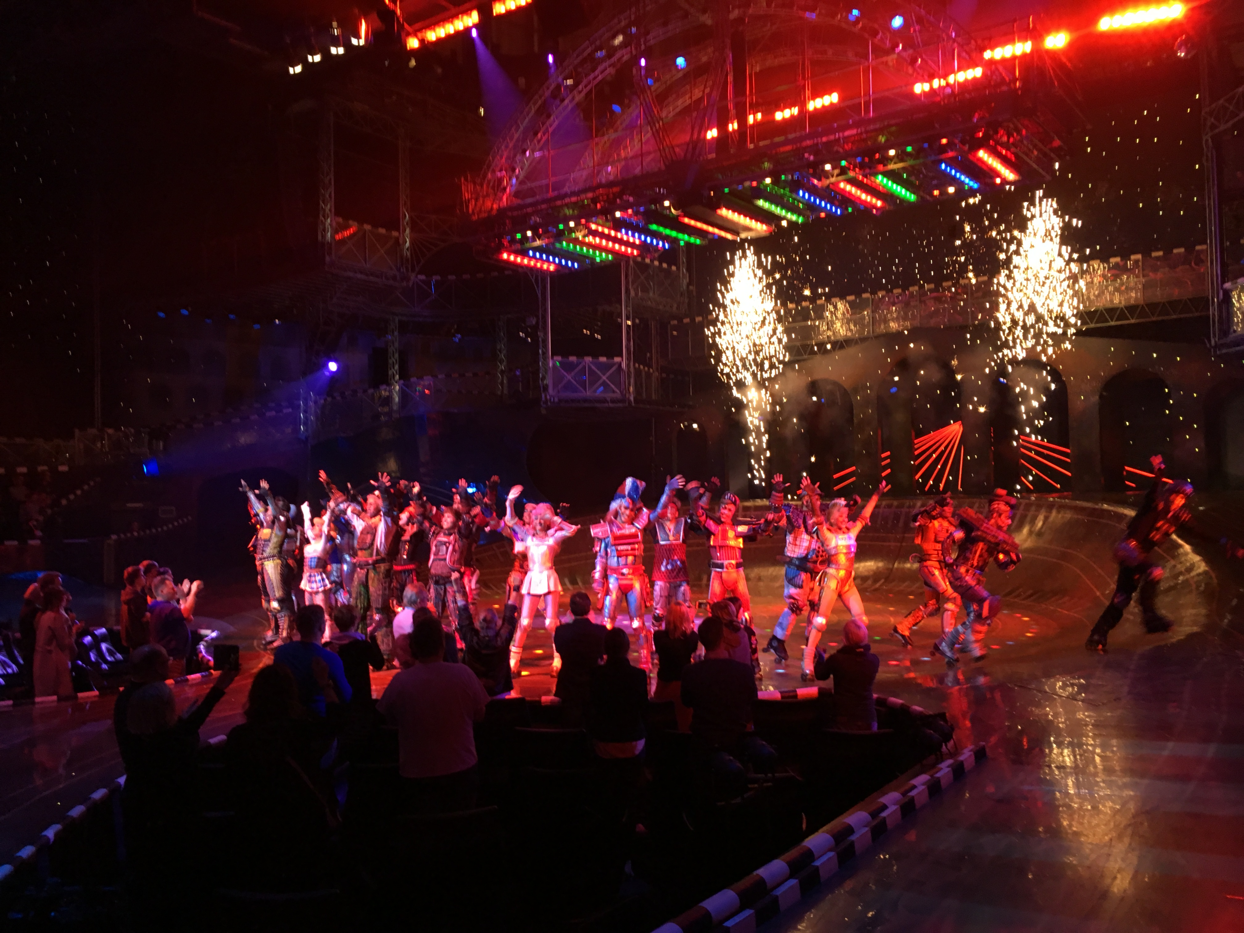 Musical Starlight Express in Starlight Express Theater, Bochum, Germany (March 2018) – 03